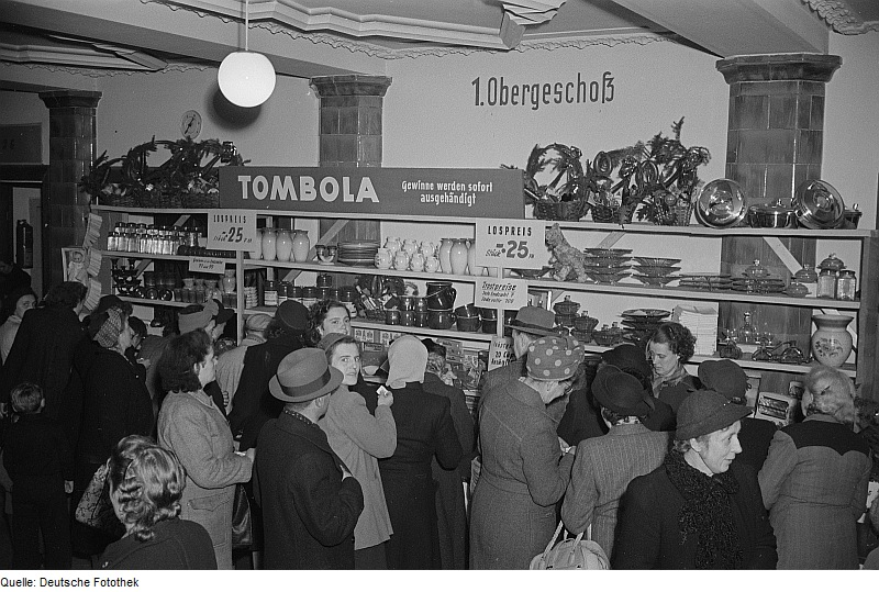 Original image description from the Deutsche Fotothek Besucher an der Tombola